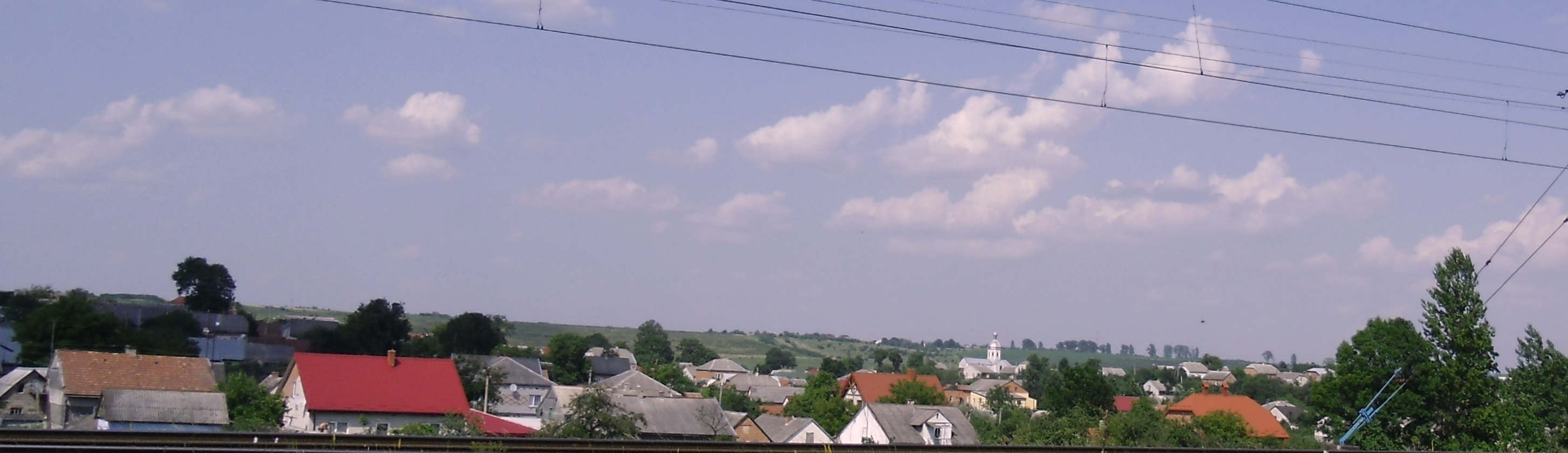 Bratkovychi. General view of the village and church of the Nativity of the Blessed Virgin.